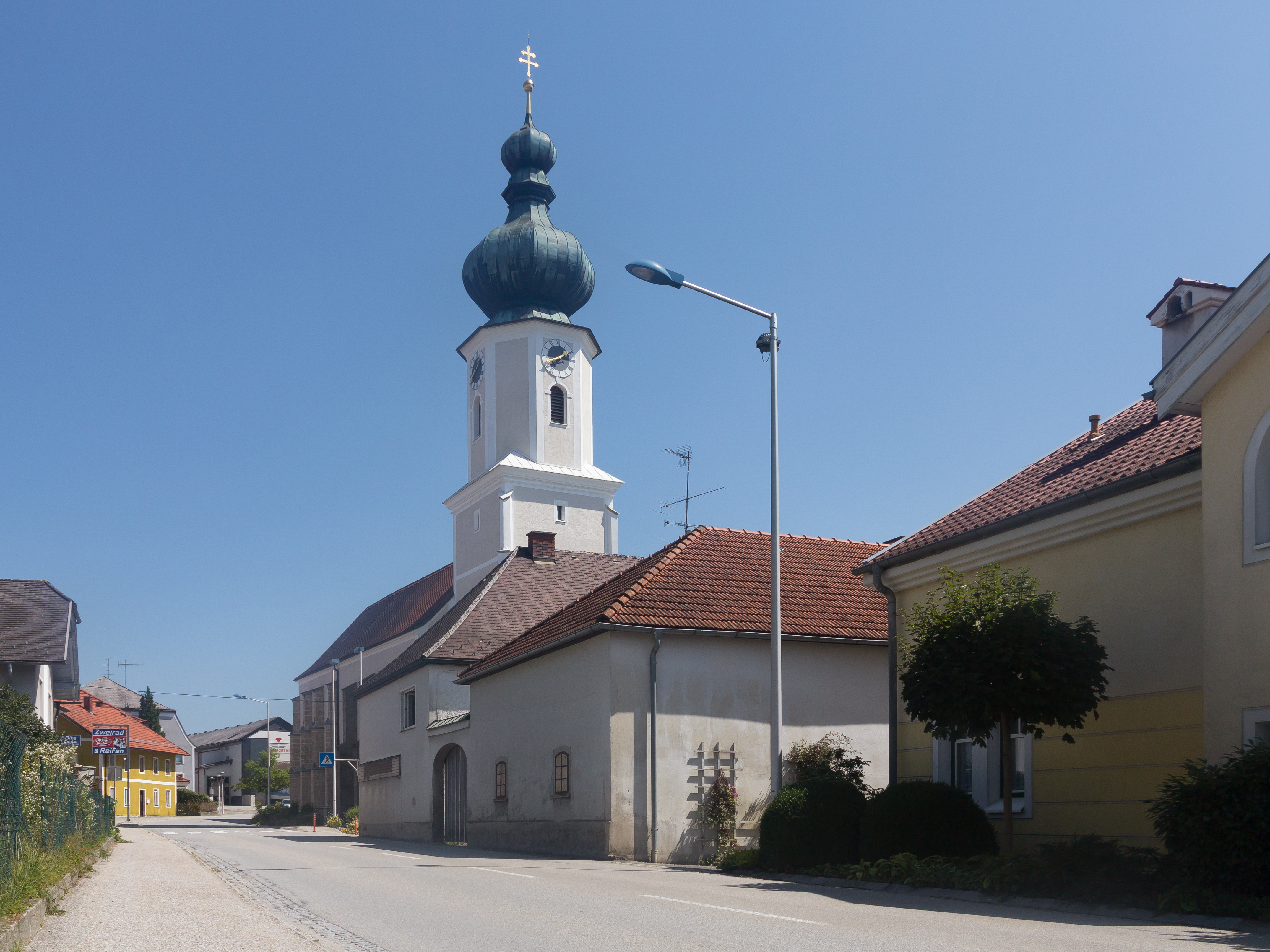 Utzenaich, church (Katholische Pfarrkirche Mariä Himmelfahrt) in the street